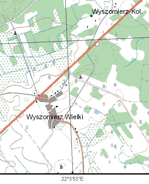 Chart of village Szumowo, Zambrowski Powiat, POLAND